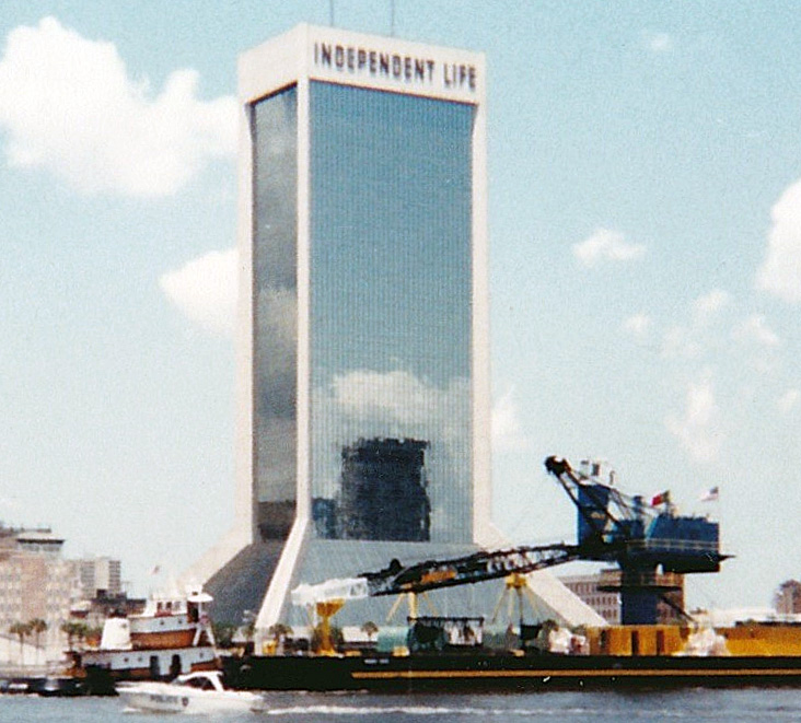 Independent Life building in Jacksonville photographed by me around 1983